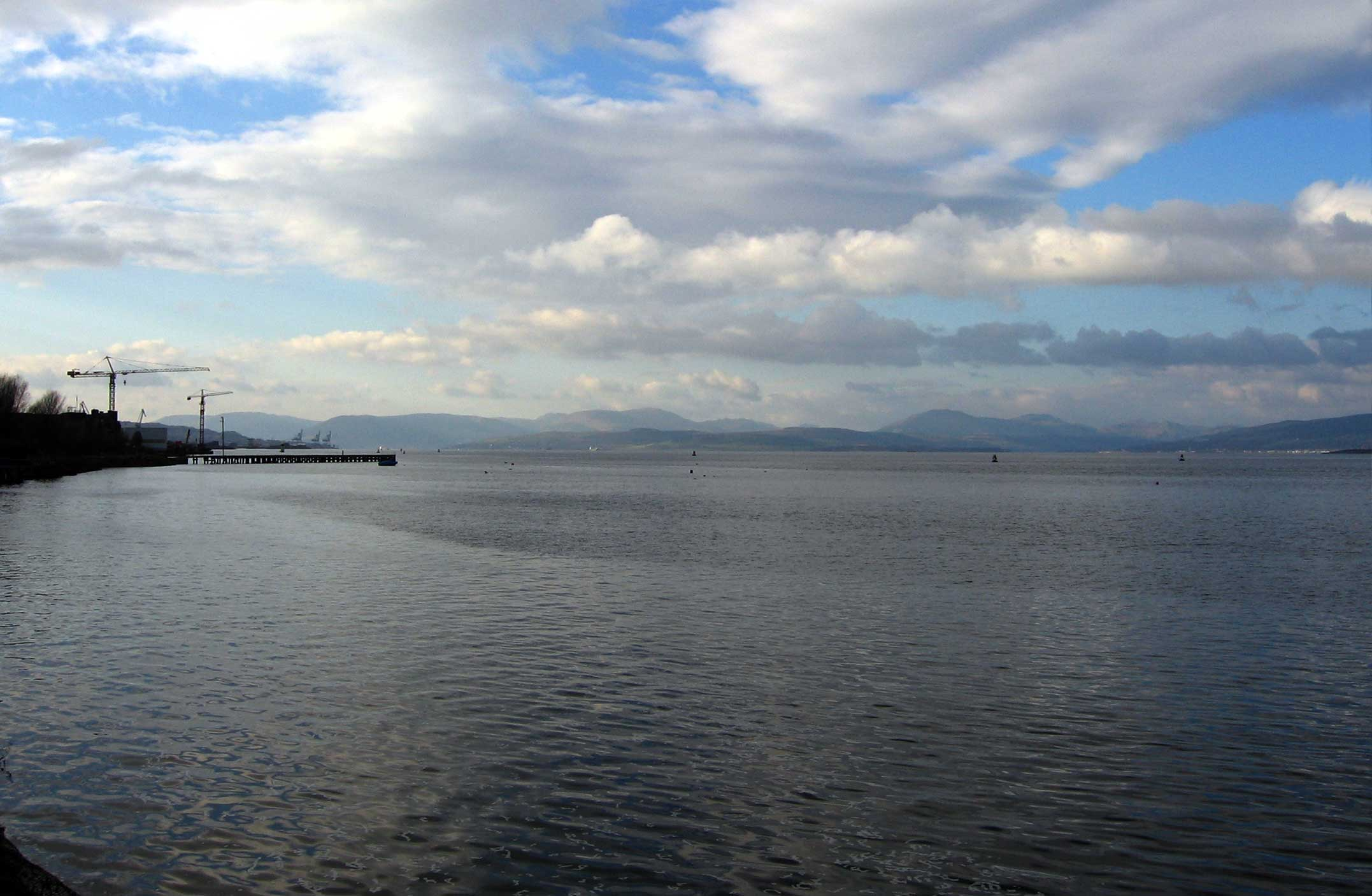 The River Clyde, Scotland. opening out past Newark Castle, Port Glasgow on the left past Clydeport Ocean Terminal, Greenock, to the Firth of Clyde, and to the right past Cardross Point to the Gare Loch.